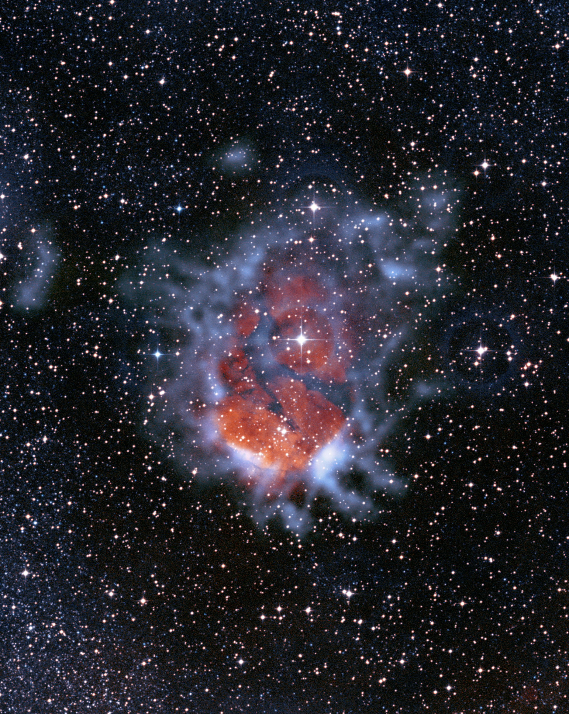 Colour composite image of RCW120. It reveals how an expanding bubble of ionised gas about ten light-years across is causing the surrounding material to collapse into dense clumps where new stars are then formed. The 870-micron submillimetre-wavelength data were taken with the LABOCA camera on the 12-m Atacama Pathfinder Experiment (APEX) telescope. Here, the submillimetre emission is shown as the blue clouds surrounding the reddish glow of the ionised gas (shown with data from the SuperCosmos H-alpha survey). The image also contains data from the Second Generation Digitized Sky Survey (I-band shown in blue, R-band shown in red). This image is available as a mounted image in the ESOshop